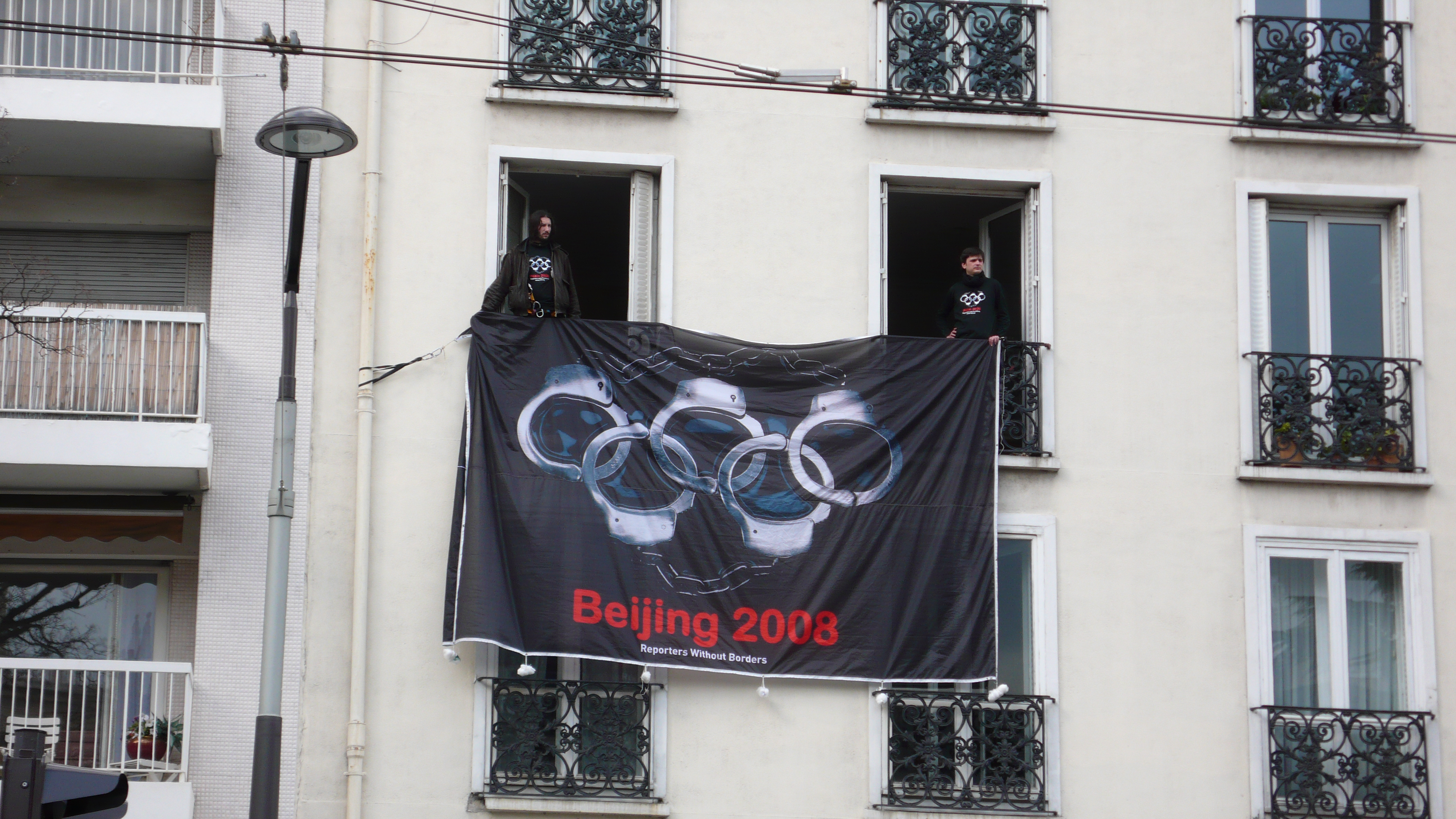 Freedom for Paris echoed along the roads of Paris today. Go back China, as Tibetians, French and countlessly other nationalities protested against Chinese's hegemony over Tibet, the silence of Paris, the cultural massacre wrought on the peaceful Tibetians. Free Tibet. Boycott Olympics in China